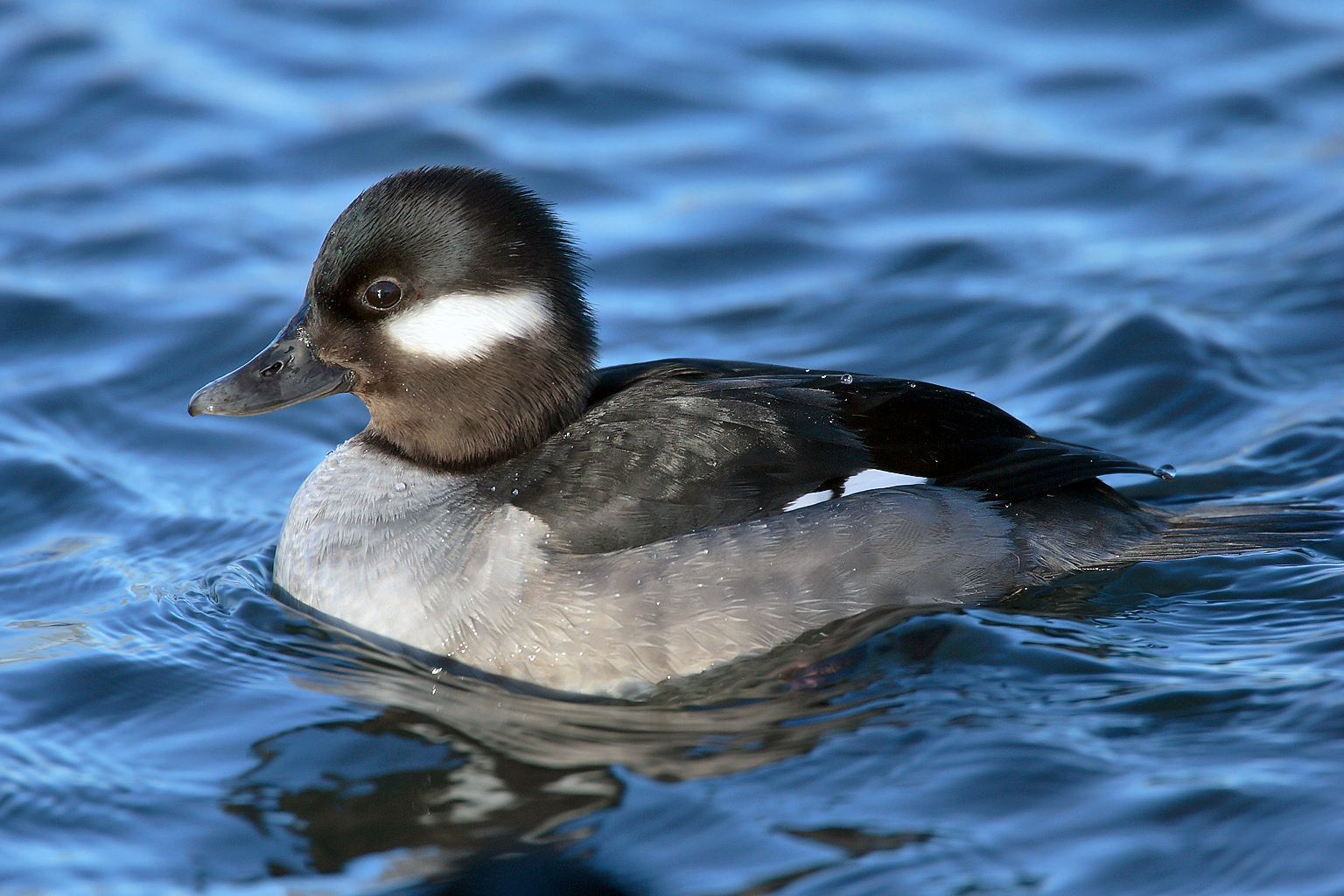 Bufflehead Bucephala albeola, female. Humber Bay Park (East), Toronto, CanadaQUACK!!!!